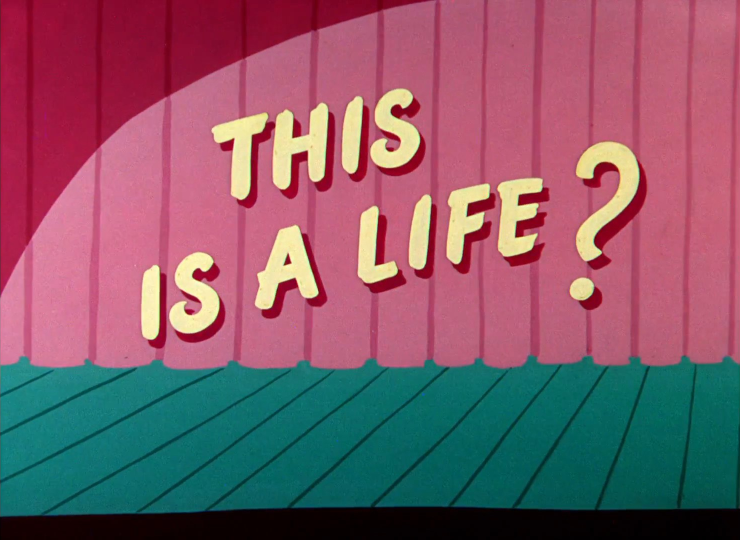 Title card for the Bugs Bunny short film "This is a Life?"